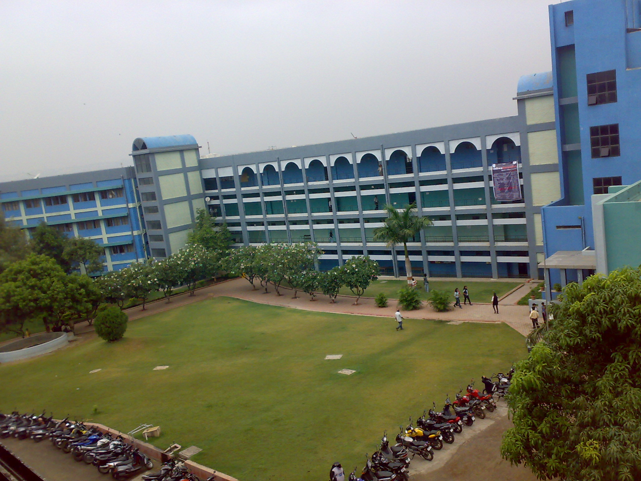 photo clicked from Industrial & Production department. 666, Upper Indira Nagar, Bibvewadi, Pune, Maharashtra 411037, India